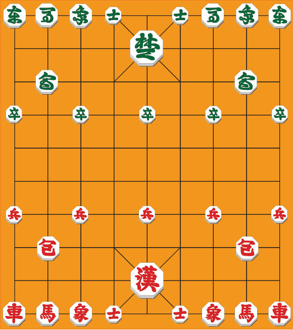 This picture is entirely my own work. Created with Adobe Illustrator.